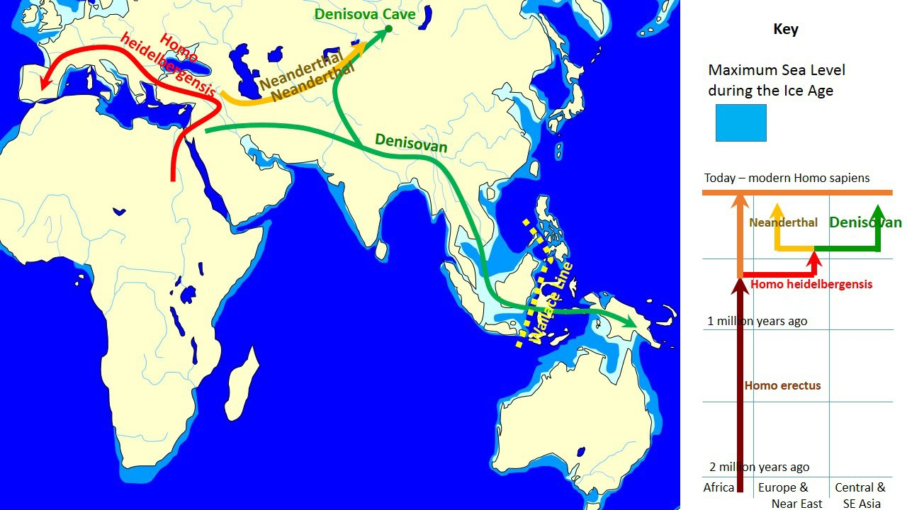 The spread and evolution of Denisovans on the basis of evidence 2014